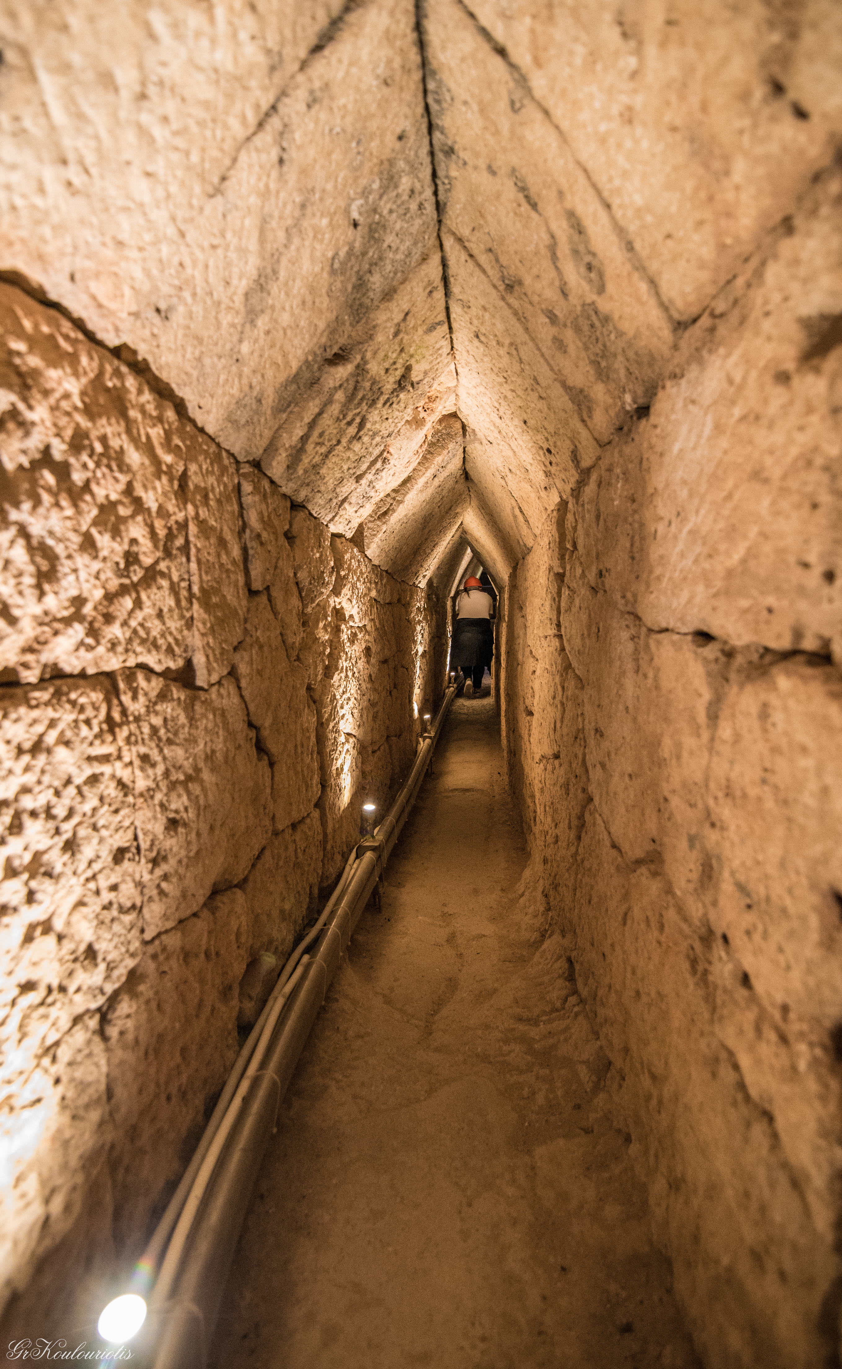 Tunnel of Eupalinos The Tunnel of Eupalinos or Eupalinian aqueduct (Modern Greek: Efpalinio orygma, Ευπαλίνειο όρυγμα) is a tunnel of 1,036 m (3,399 ft) length in Samos, Greece, built in the 6th century BC to serve as an aqueduct.[1] The tunnel is the second known tunnel in history which was excavated from both ends (Ancient Greek: αμφίστομον, amphistomon, "having two openings"), and the first with a geometry-based approach in doing so.[2] Today it is a popular tourist attraction.